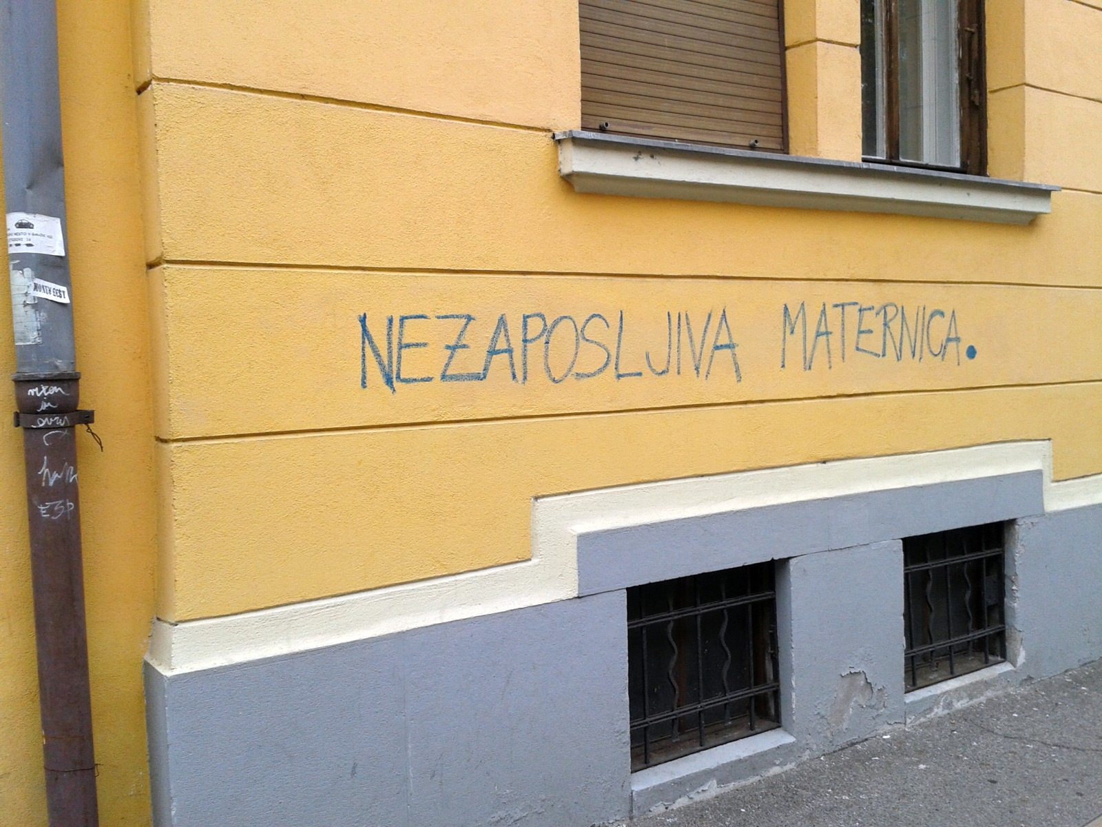 "Unemployable uterus", a graffito at Petkovšek Embankment in Ljubljana.